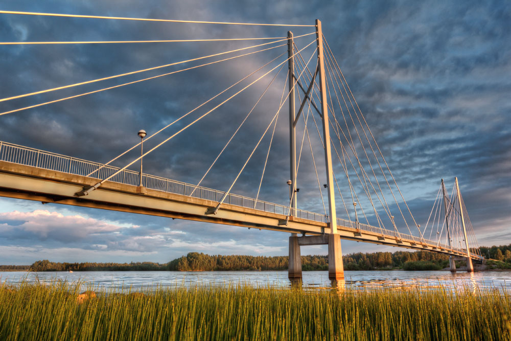 Öholmabron in Piteå, Sweden. Photographed one beautiful evening last summer at sunset.